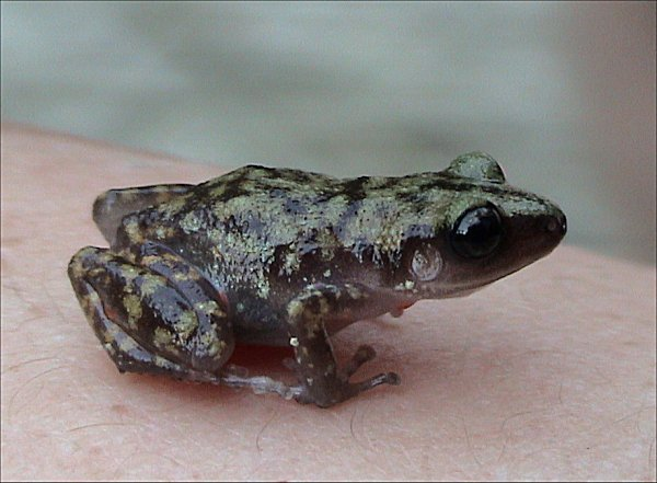 Photographer: User:Dawson